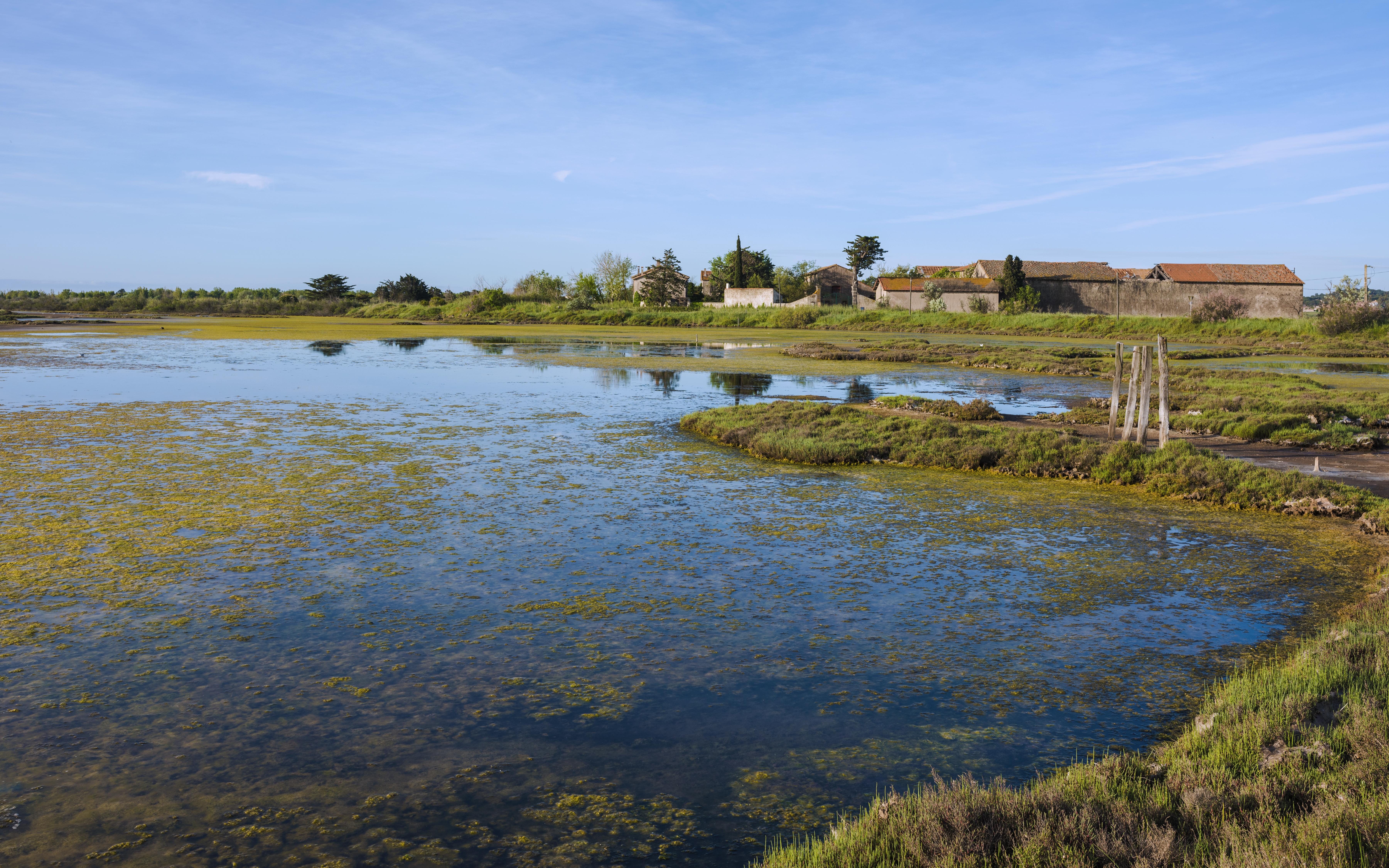 The house of the "Réserve naturelle nationale du Bagnas" (Bagnas National Nature Reserve), house situated in the commune of Agde, in front of the Rieu inlet. On the surface of the water there is seen green algae of the family Characeae (Charophyceae), and along the water Salicornia europaea (Common glasswort).Photo taken from the Northeast in the commune of Marseillan. Hérault, France.